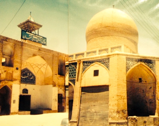 Two facets of Shahshahan Mausoleum combined.